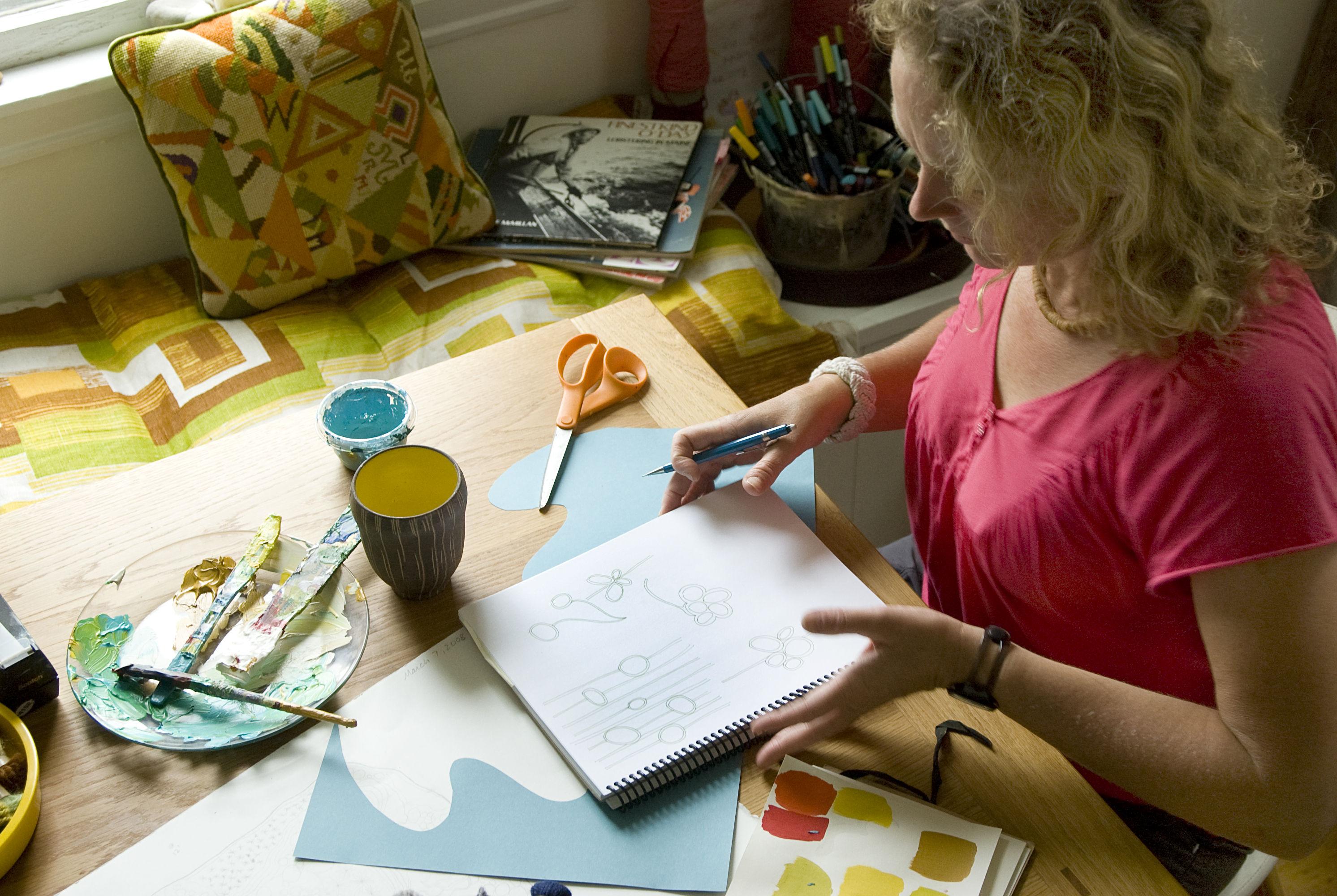 Angela Adams in design studio